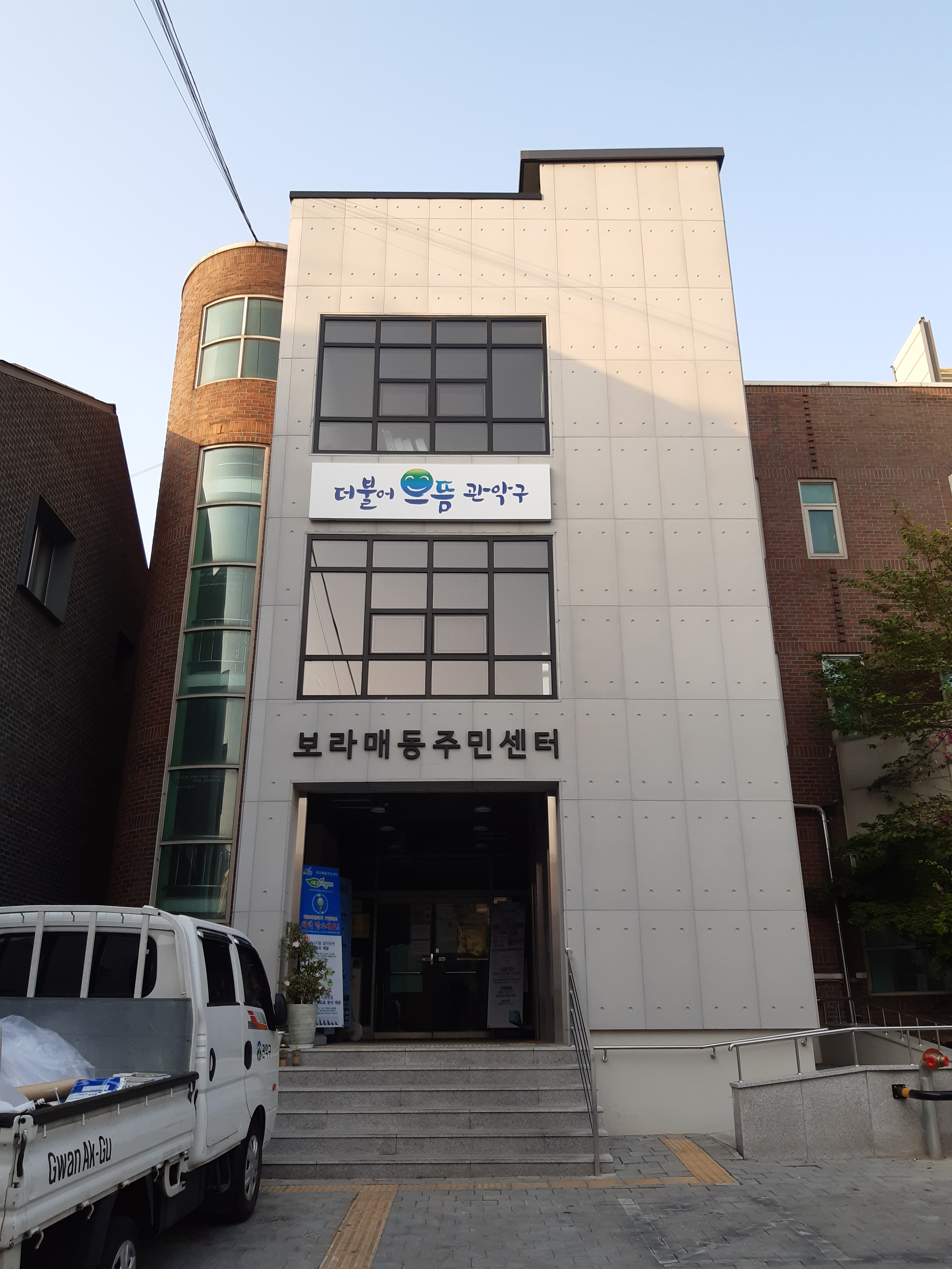 Boramae-dong Comunity Service Center (Gwanak-gu) Year: 2020